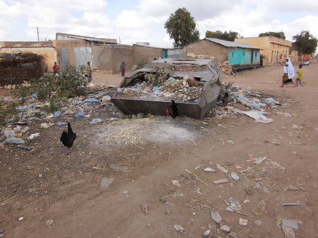 Shekosh district in korahae Somali region in Ethiopia